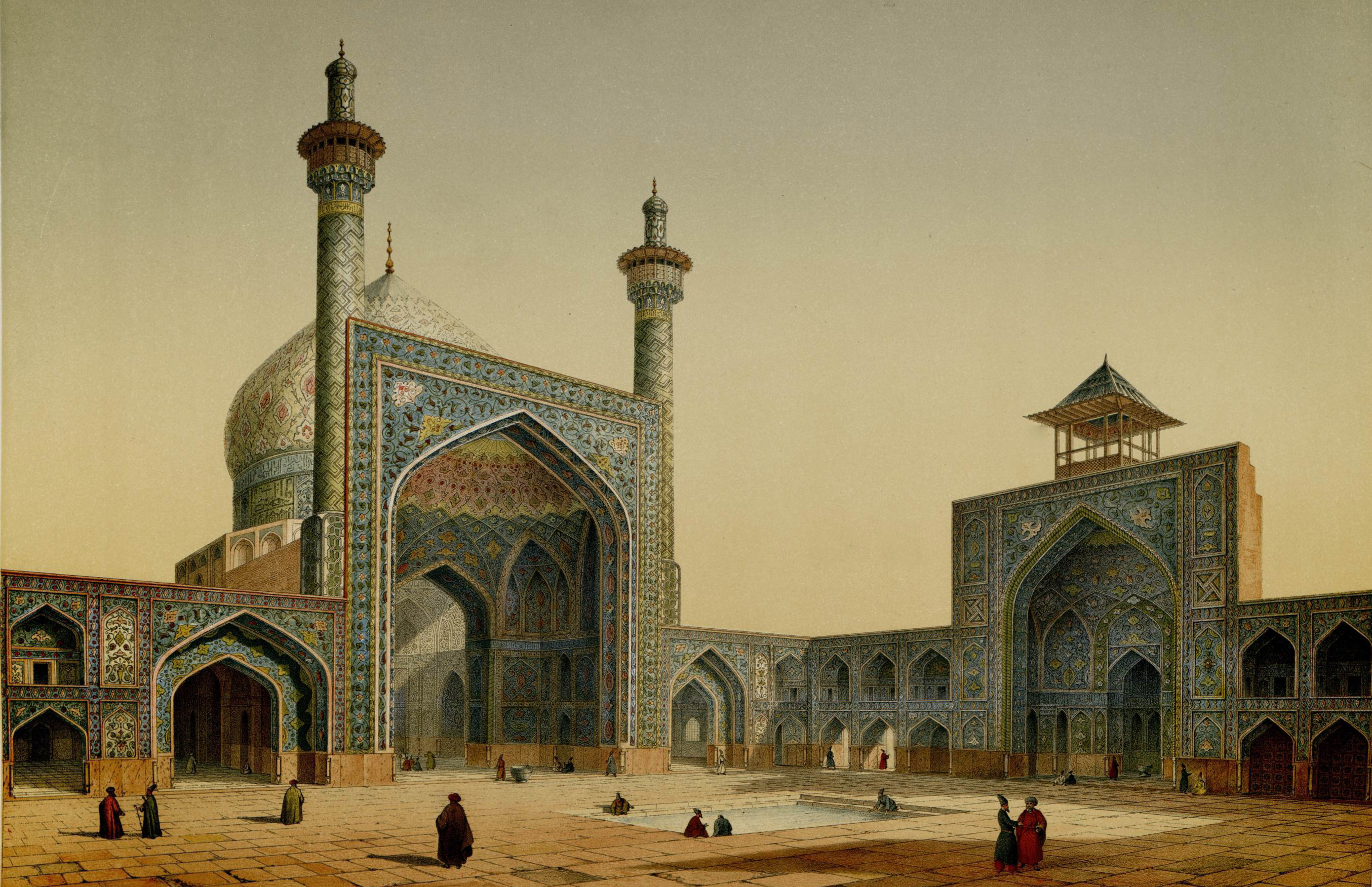 Masjid Shah, view of the courtyard